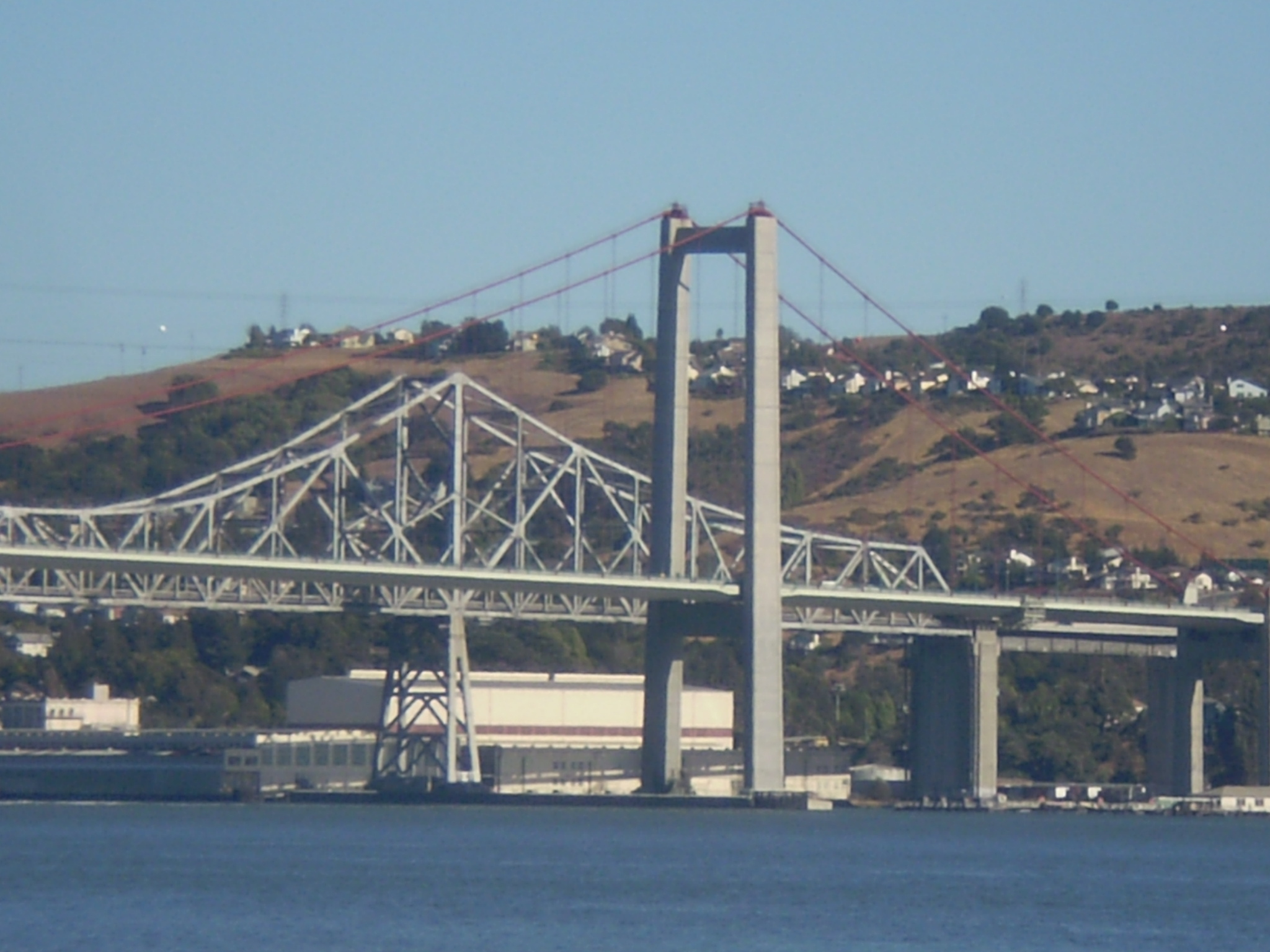 A shot of the Southern portion of the Carquinez Bridge shot from a Baylink Ferry.